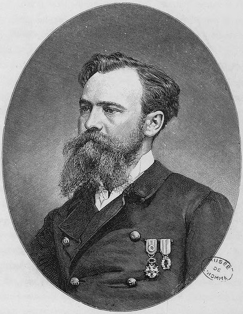 French explorer Jules Crevaux (1847-1882). Portrait by Édouard Riou (1833–1900) Alternative names Edouard RiouDescriptionFrench illustratorDate of birth/death 2 December 1833 27 January 1900Location of birth/death Saint-Servan ParisWork location FranceAuthority control : Q583275 VIAF: 34726165 ISNI: 0000 0001 1815 839X ULAN: 500087013 LCCN: nr91017090 NLA: 35663386 WorldCat creator QS:P170,Q583275 from Voyages dans l'Amérique du Sud by Jules Crevaux, Paris : Hachette, 1883.